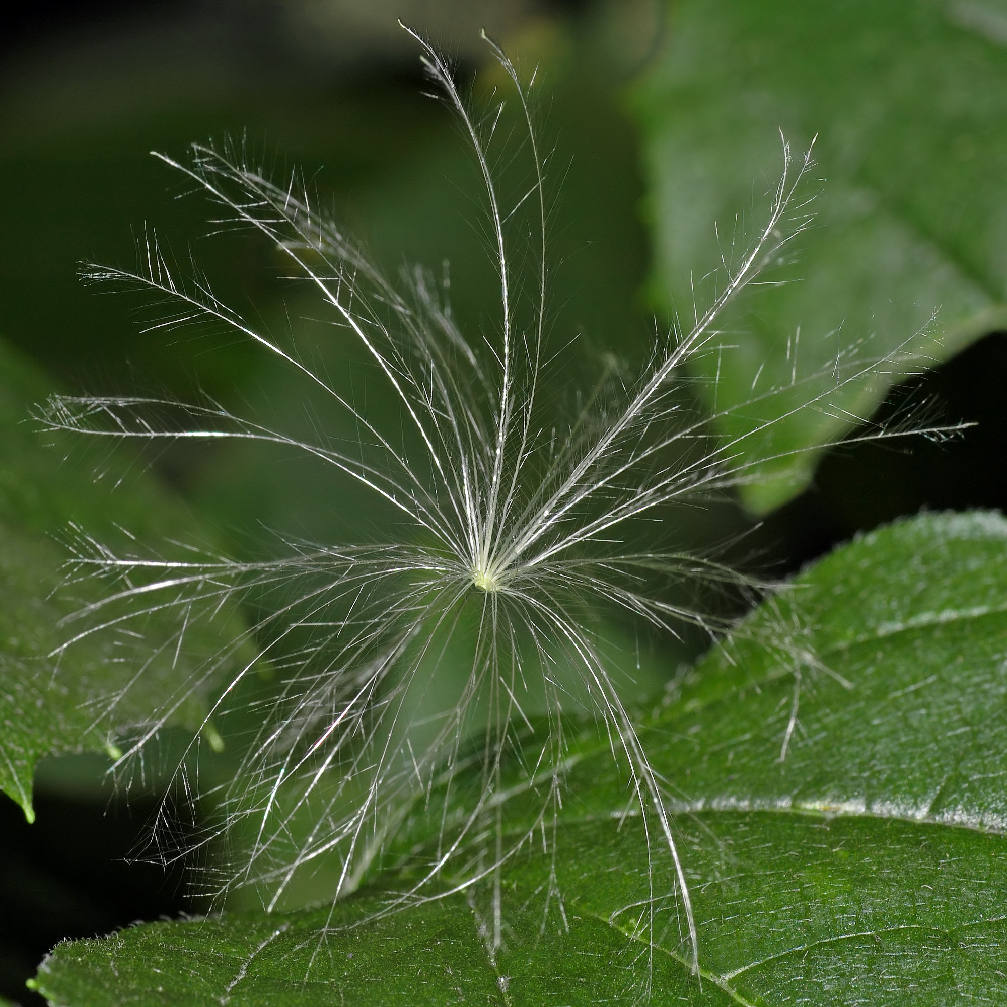 This image shows a pappus of a Creeping Thistle Cirsium arvense plant.